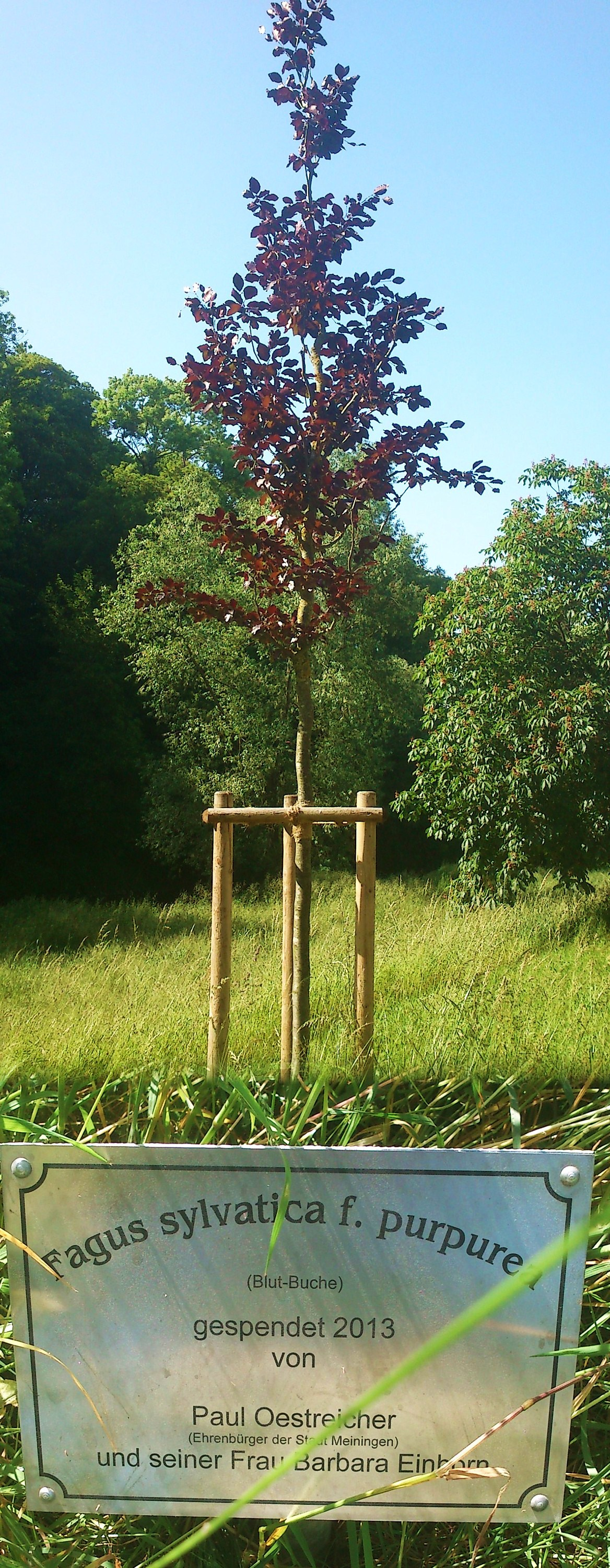 By Paul Oestreicher and Barbara Einhorn in 2013 donated copper beech in the castle park Meiningen.